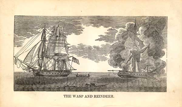 Woodblock, 3.5" by 6.5" on paper that is 5" by 8"